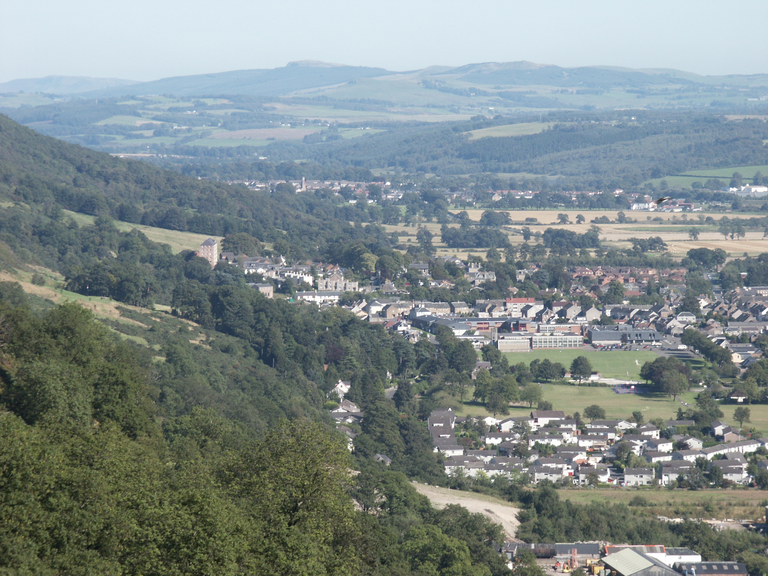 A view of Alva taken from the front slope of Myreton Hill, facing east. The Strude Mill is the tall building on the high ground to the left, just in front of Alva Glen. Tillicoultry is in the background.